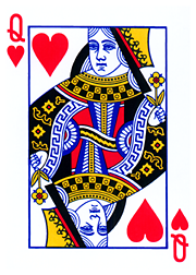 A Playing card: queen of hearts , from poker deck, in small png format.